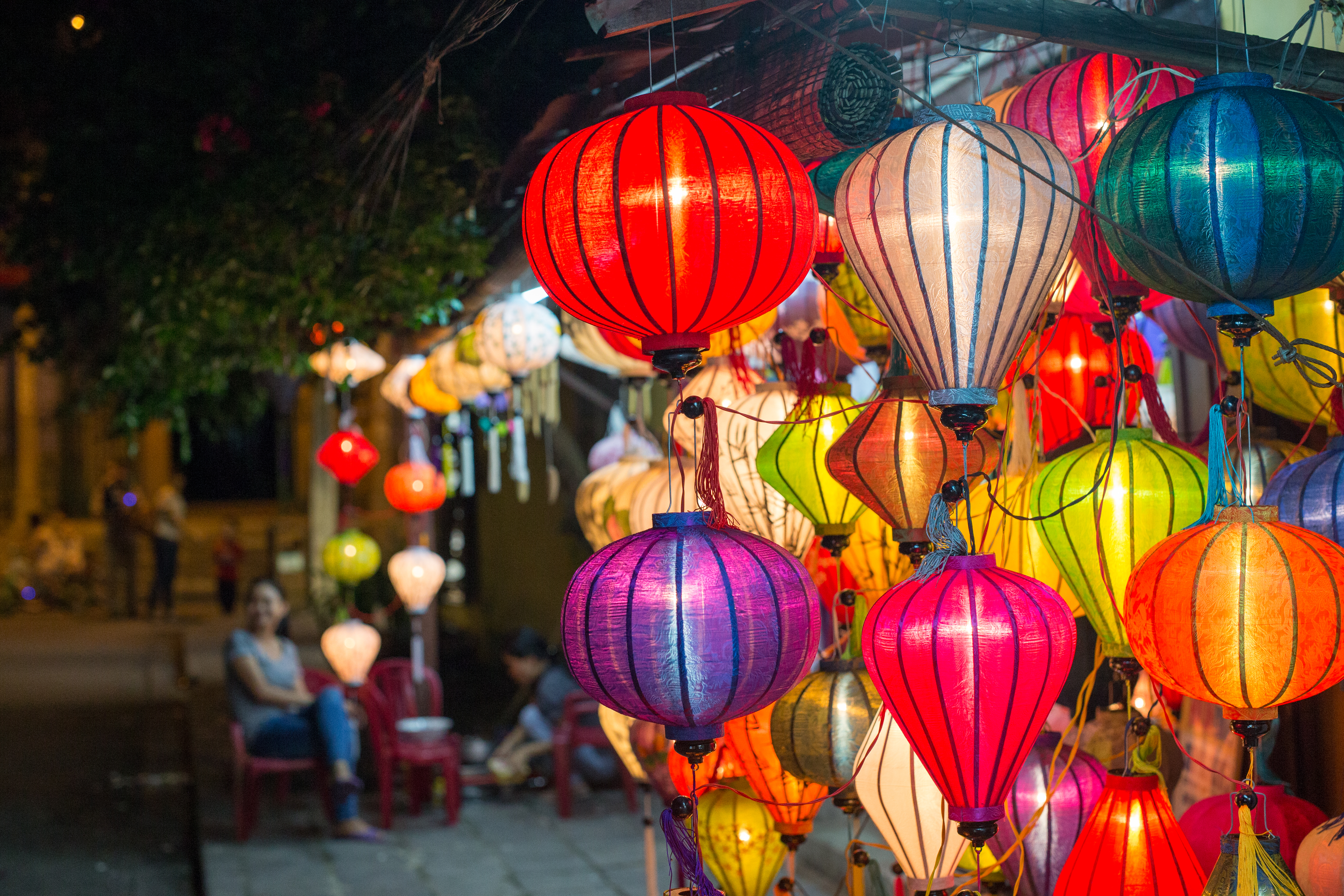 Lantern sales are slow tonight